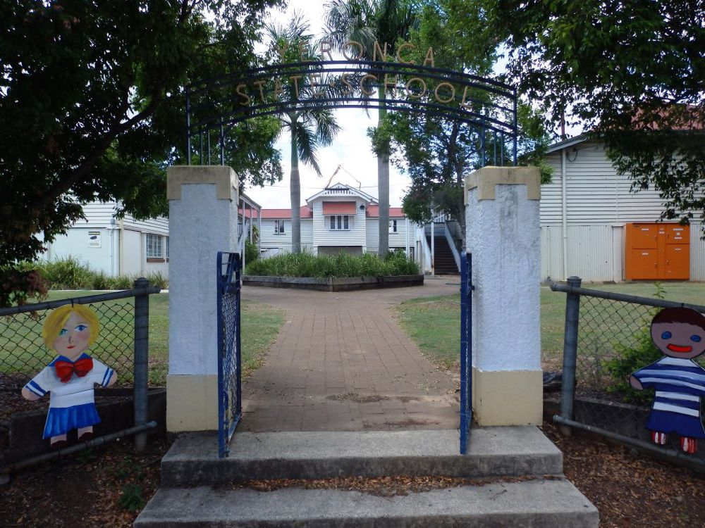 Park Road entrance gateway; view from west (EHP, 2016)